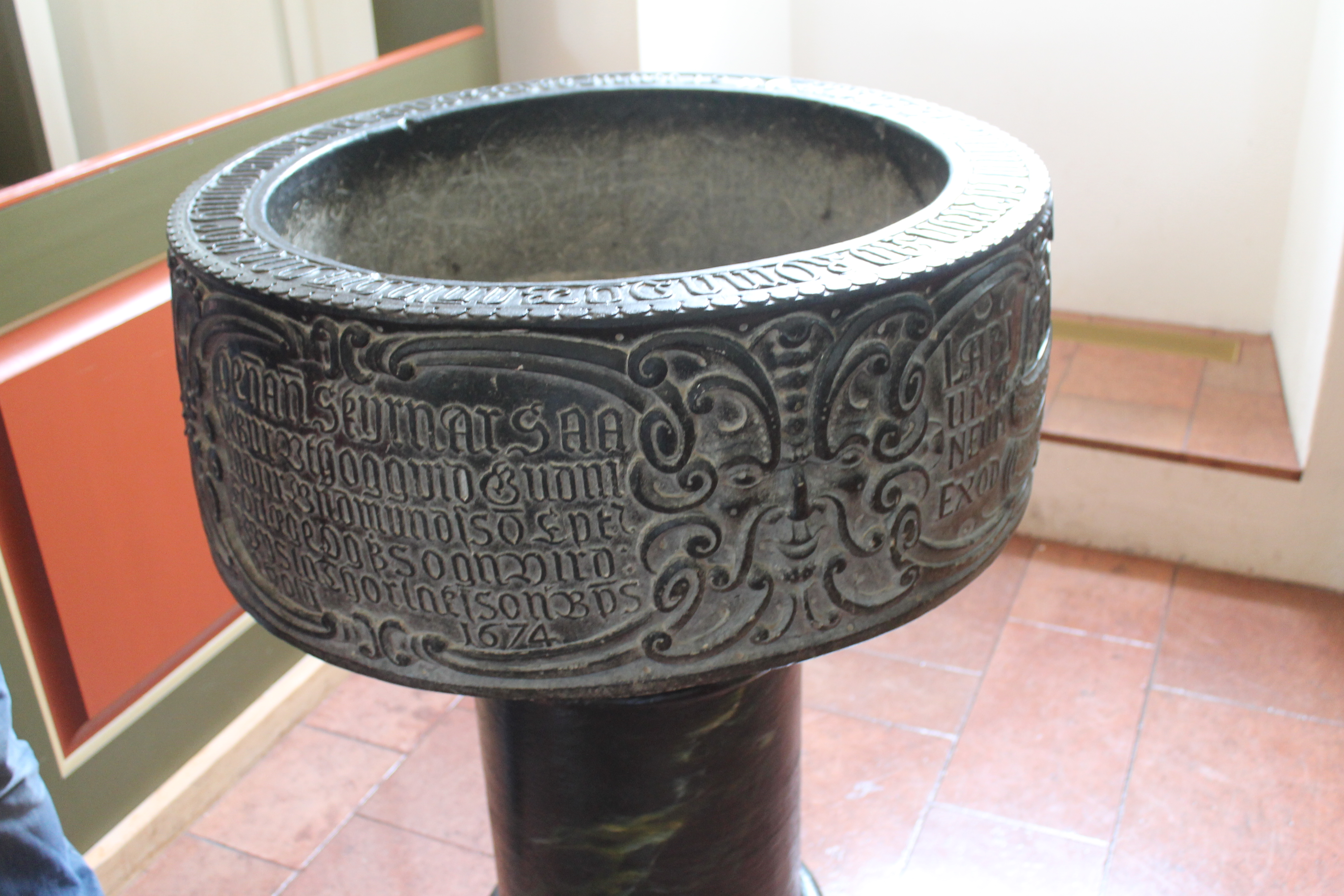 Baptismal font at the Hólar Cathedral, Skagafjörður, Iceland. Made in 1674 by Guðmundur Guðmundsson of Bjarnastaðahlíð, Skagafjörður.